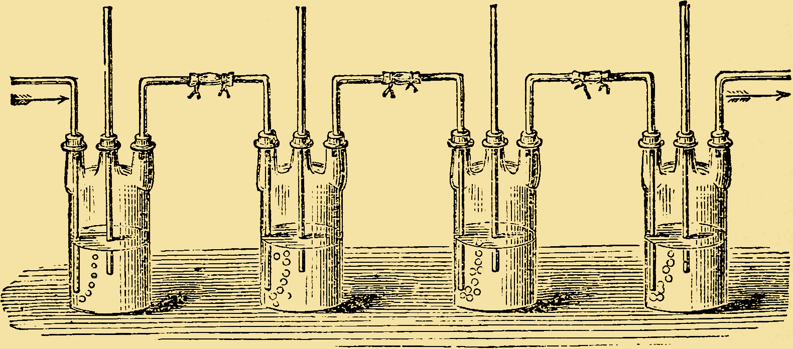 Woulfe bottles in series